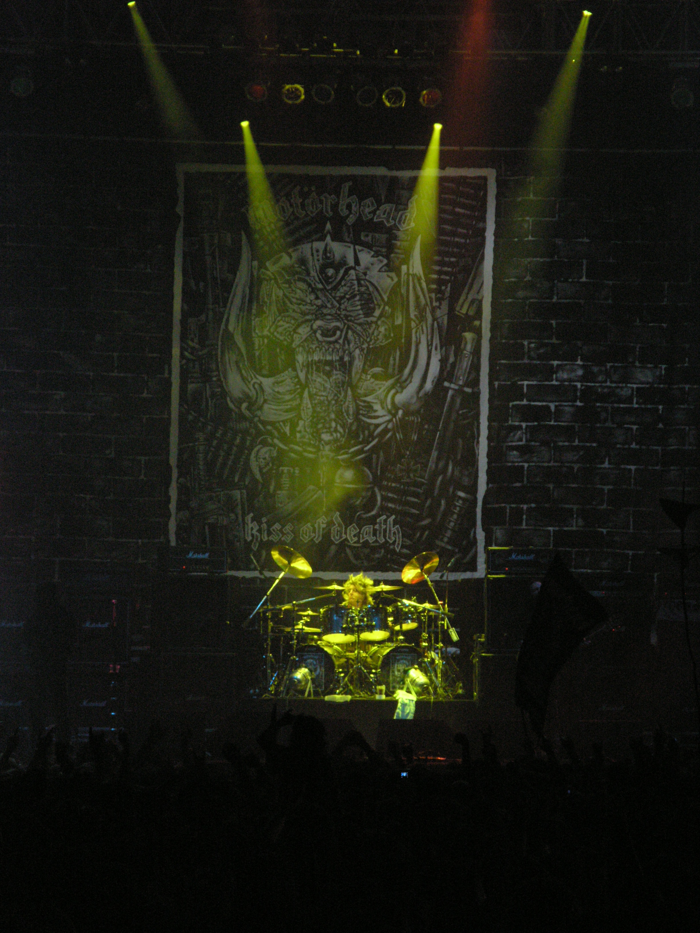 Music band Motörhead during Masters of Rock 2007 festival